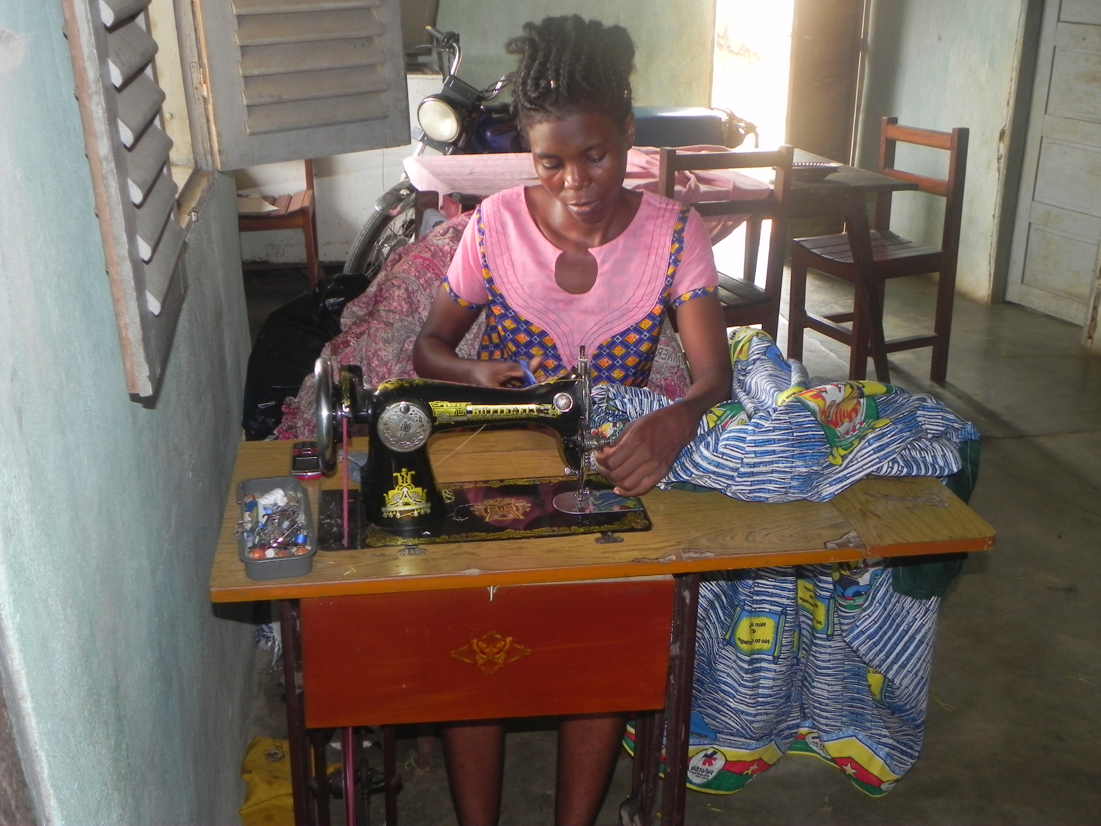 Couturière entrain de coudre un Kaba Ngondo à l'occasion de la journée internationale de la femme This is an image of "African people at work" from Cameroon